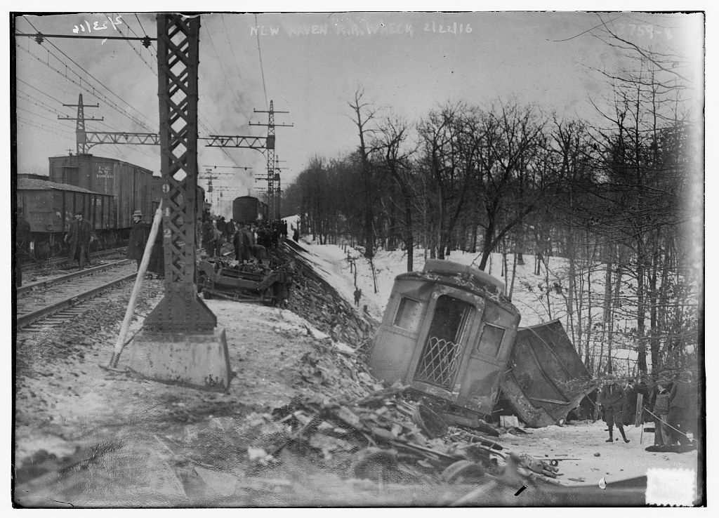 Three New Haven Trains Piled in Wreck on February 22, 1916. Image from the Library of Congress.